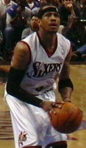 Allen Iverson, Philadelphia 76ers